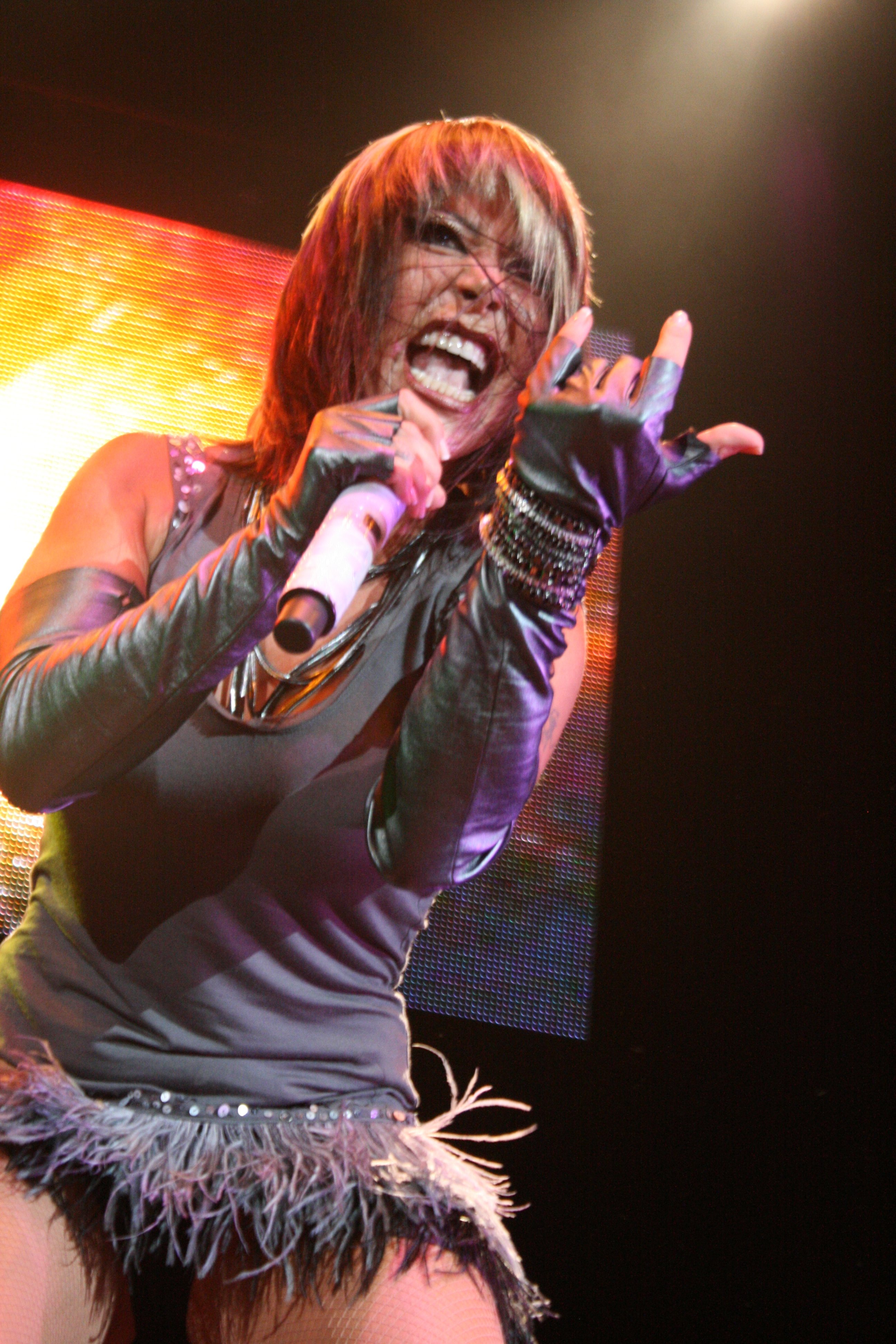 Alejandra Guzmán at Denver Coliseum, 2009.